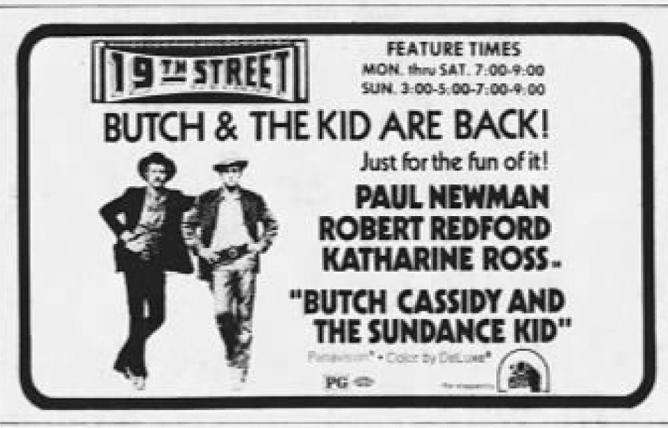 Nineteenth Street Theater advertisement for the American film Butch Cassidy and the Sundance Kid (1970) - 28 May 1974 Morning Call, Allentown, PA